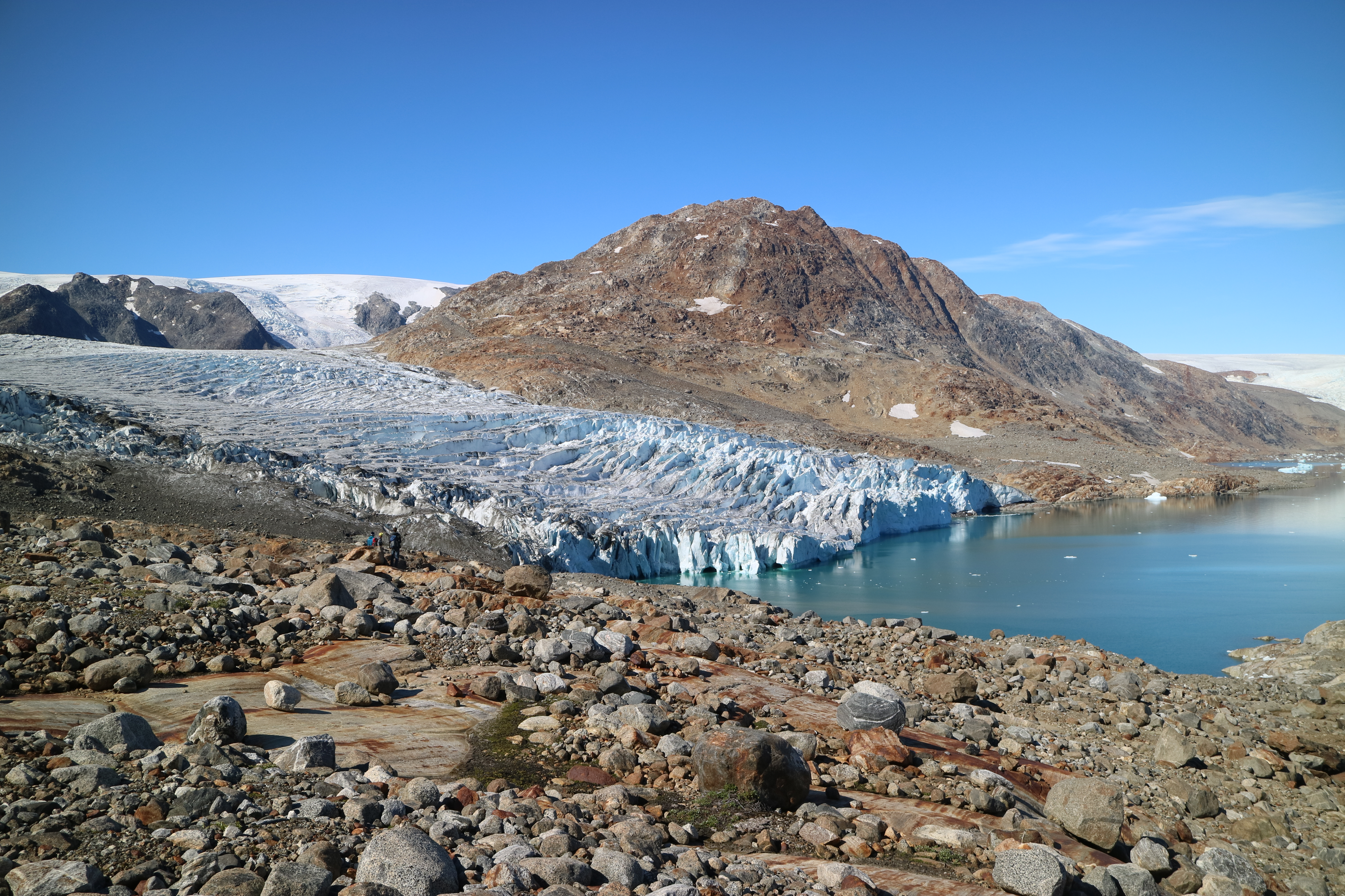 Hann glacier in South East Greenland